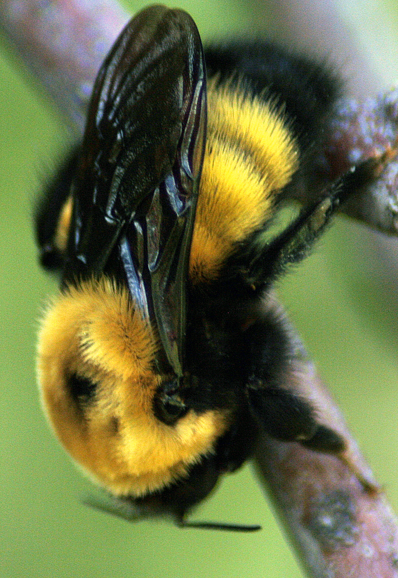 Description: Bombus morrisoni on an apple tree in Greenwood Village, Colorado Source: Adam Ginsburg Species; looks like Bombus vosnesenskii (Yellow Faced Bumble Bee), but I'm not 100% sure (can't see its face). B kimmel 17:07, 18 August 2006 (UTC) Unlikely to be B. vosnesenkii, compare to Image:Bombus vosnesenkii.jpg. Suicidalhamster (talk) 23:27, 18 August 2008 (UTC) This is Bombus morrisoni; caption changed accordingly